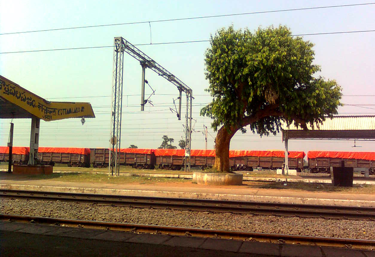 Kottavalasa train station, Vizianagaram district, Andhra Pradesh